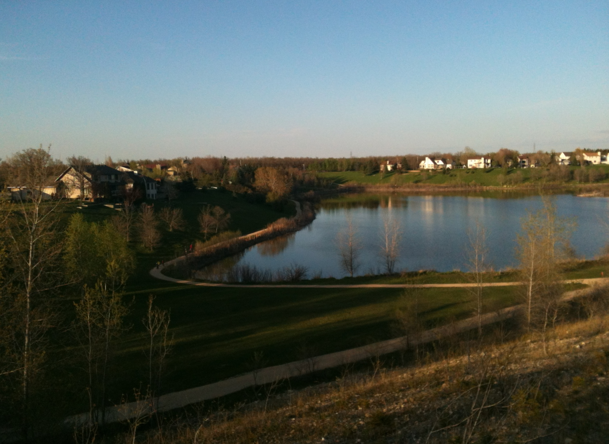 Silverfox Estates homes beside lake in the community of Birds Hill in East St. Paul, Manitoba